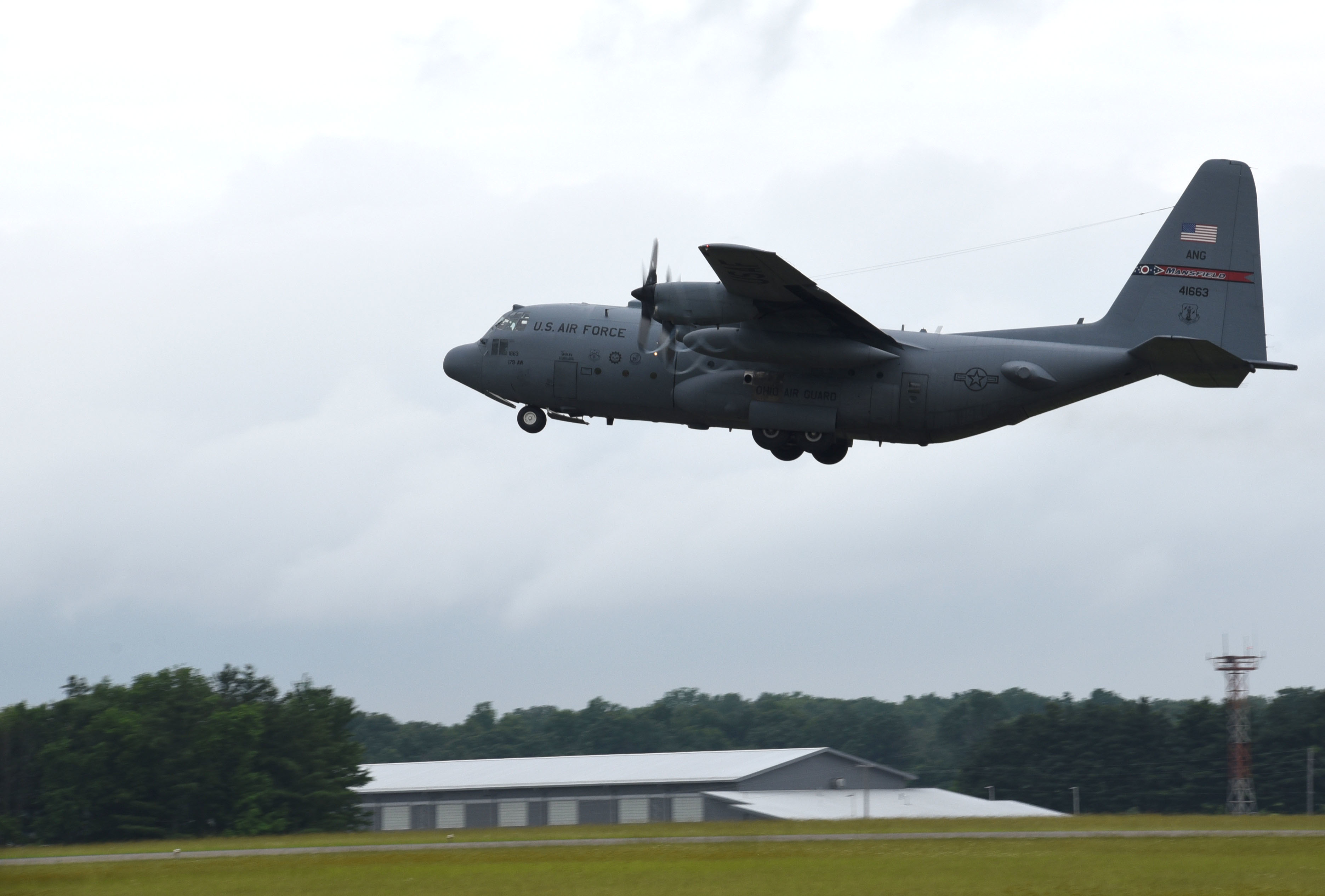 A C-130H Hercules takes off on June 20th, 2018 at the 179th Airlift Wing in Mansfield, Ohio. (Ohio Air National Guard photo by Airman First Class Christi Richter/Released).